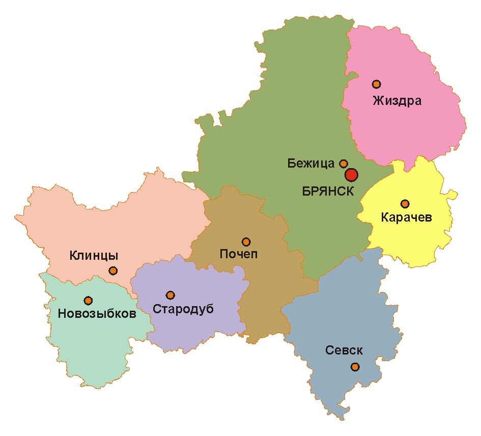 Uyezds of Bryansk guberniya